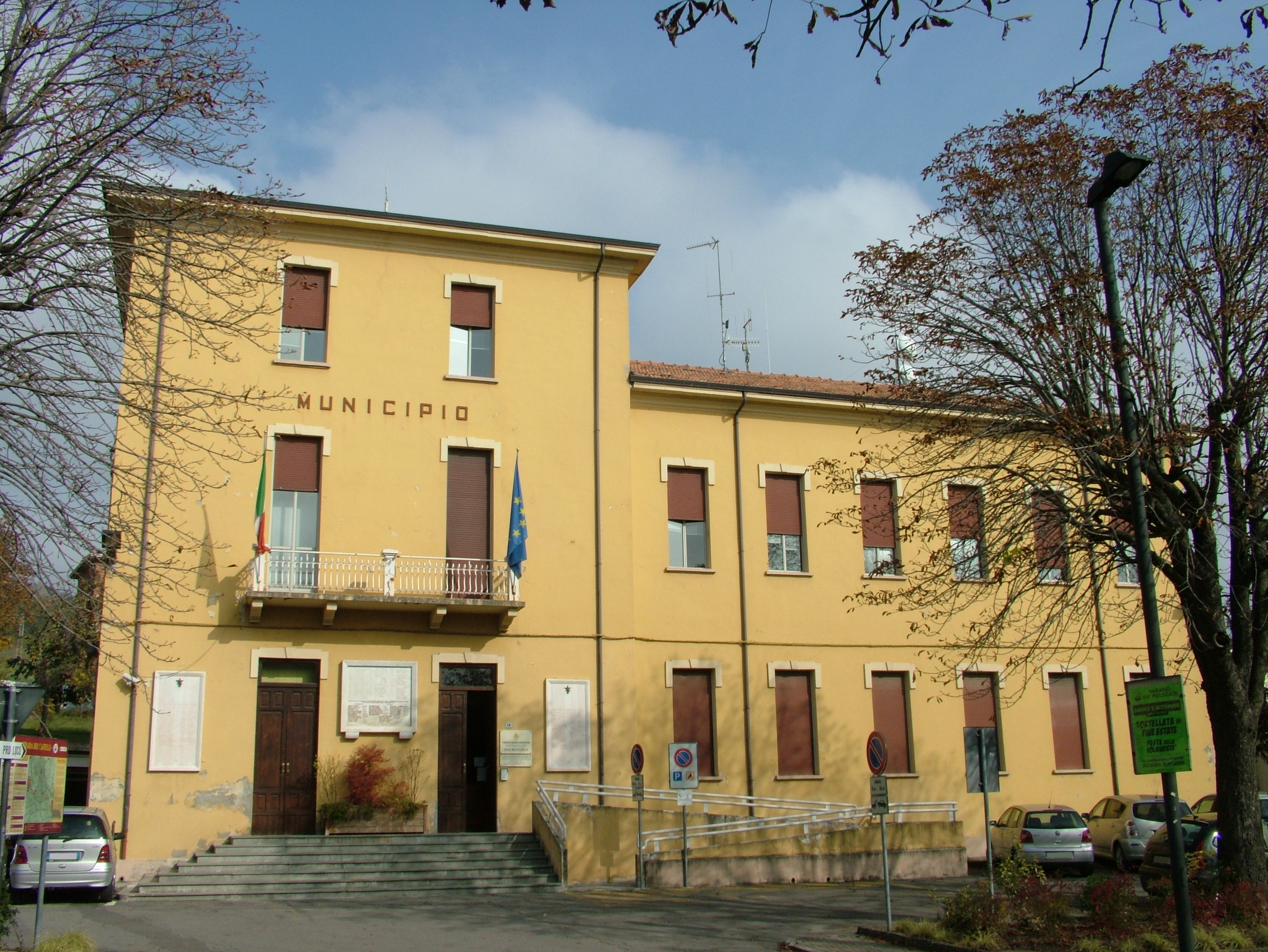 Italy, province of Parma, Varano de' Melegari, the Town Hall.